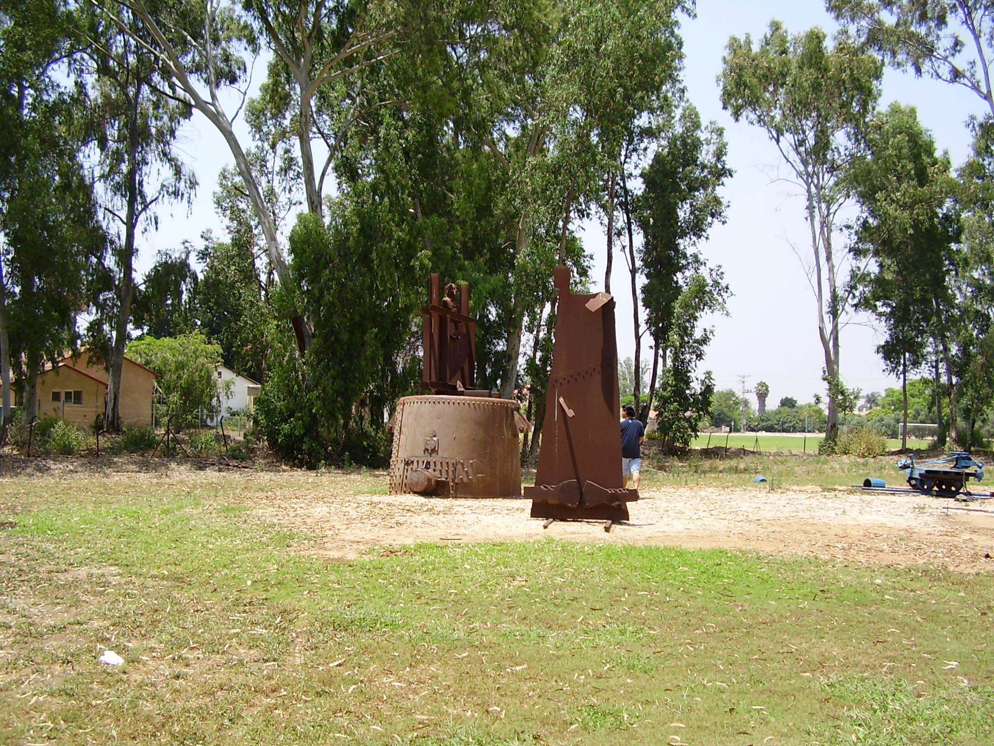 tomarkin\'s sculptures garden in burgata